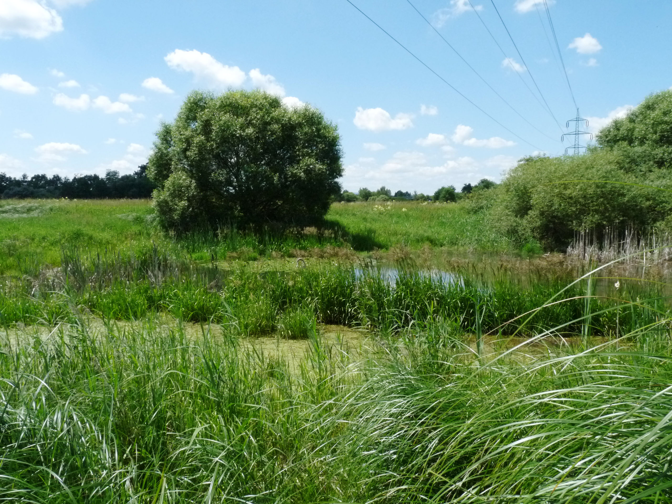 Natural monument Vrbenská tůň in České Budějovice District, Czech Republic Česky: Přírodní památka Vrbenská tůň v okrese České Budějovice